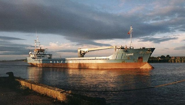 River Trent at Keadby Lock. In the evening of 24th July 2002 aggregate boat "Tinno" passes the entrance to Keadby Lock on the Stainforth & Keadby Canal heading for Gunness Wharf for discharge. See 272616.